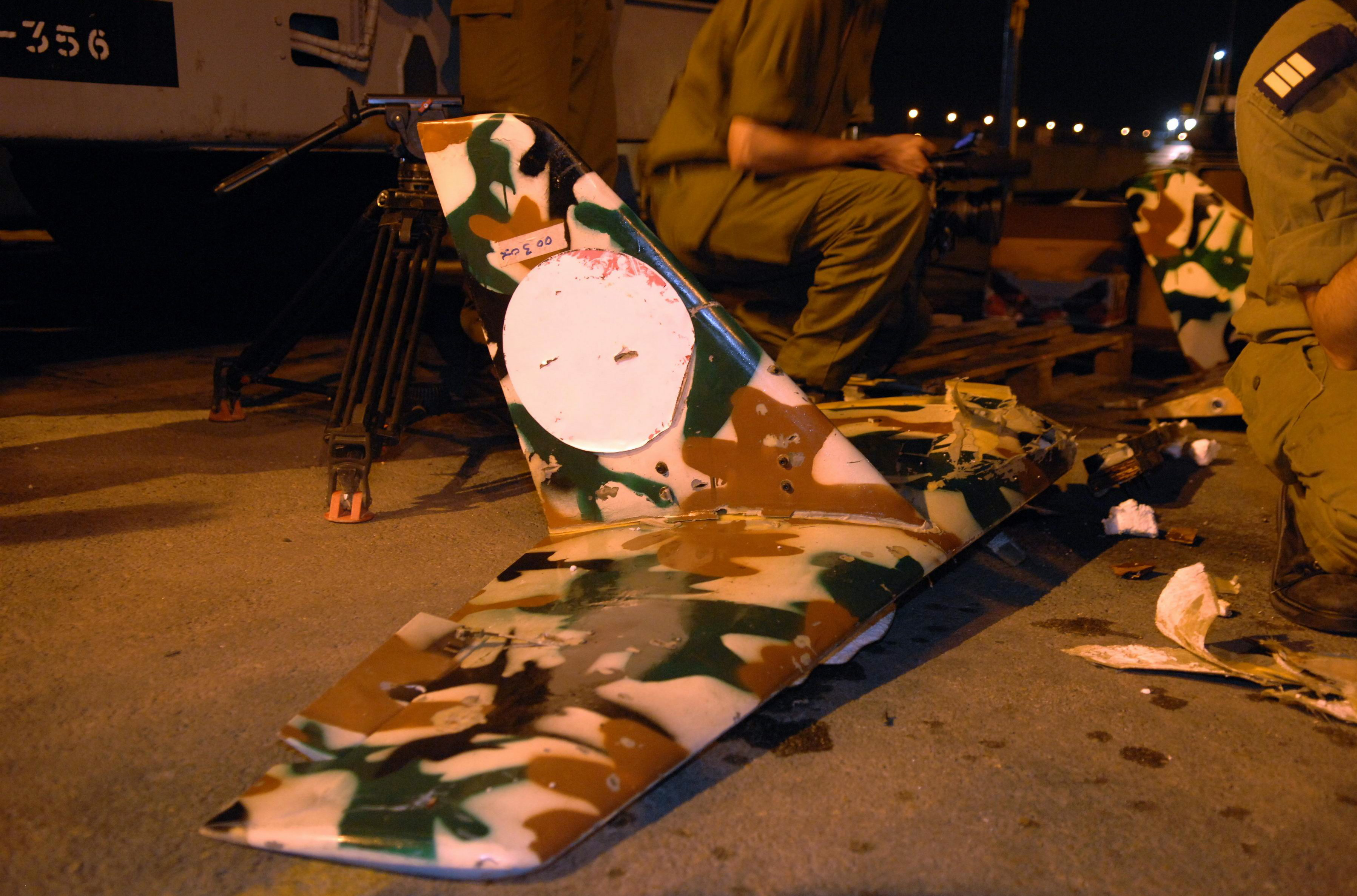 August 7, 2006 Pieces of a Hezbollah UAV (Unmanned aerial vehicle) that was taken down by the Israeli Air Force.